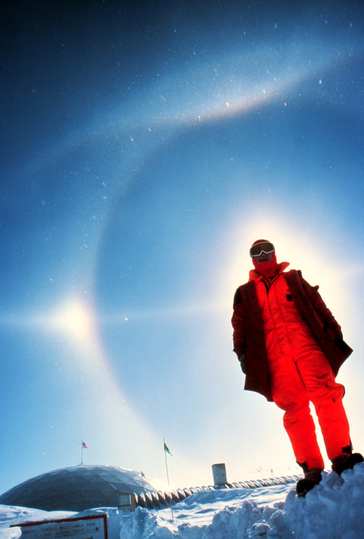 A halo around the sun from the NOAA Photo Library. The structures visible in the background are part of the South Pole Station.